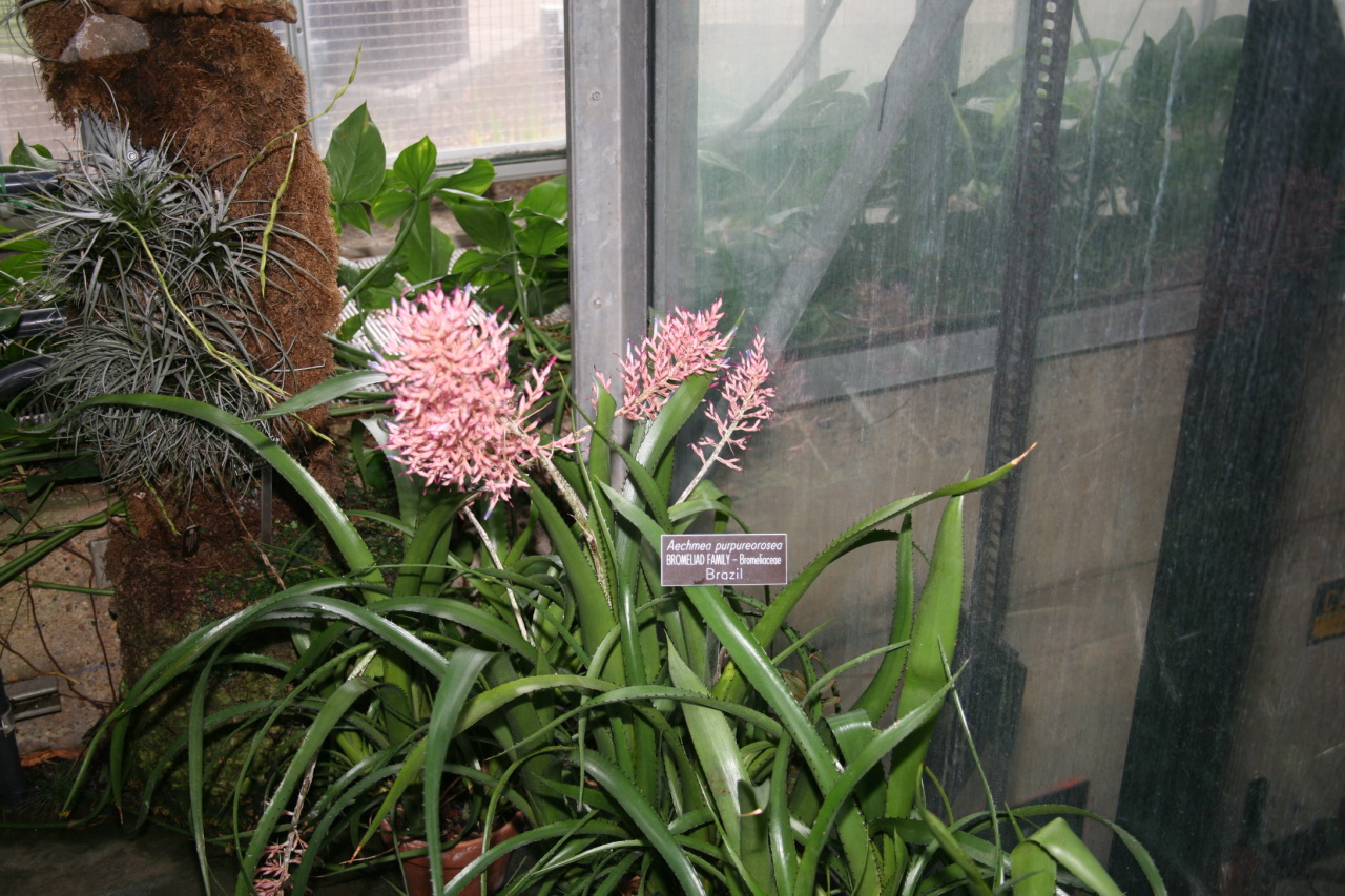 Aechmea purpureorosea Member of the Bromeliad family - Bromeliaceae